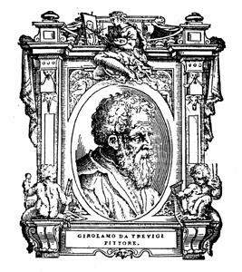 Illustratio from "Le Vite" by Giorgio Vasari, edition of 1568. For the artist portrayed see filename